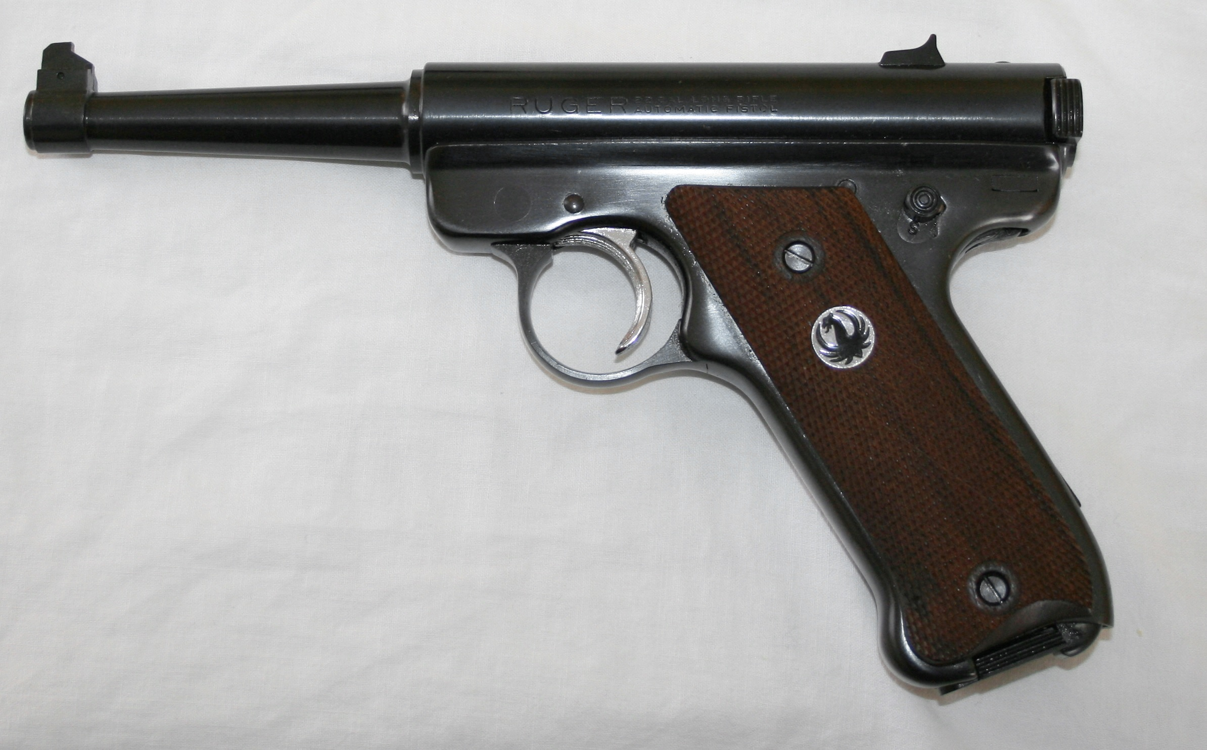 Ruger Standard pistol with factory wood grips